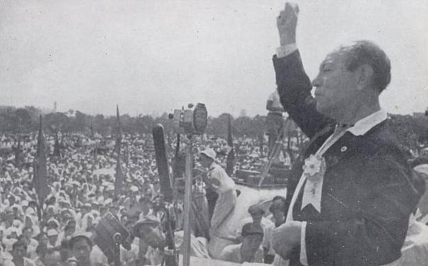 Kyuichi Tokuda Japanese Communist Party chief secretary who makes a speech on “Revival May Day”.